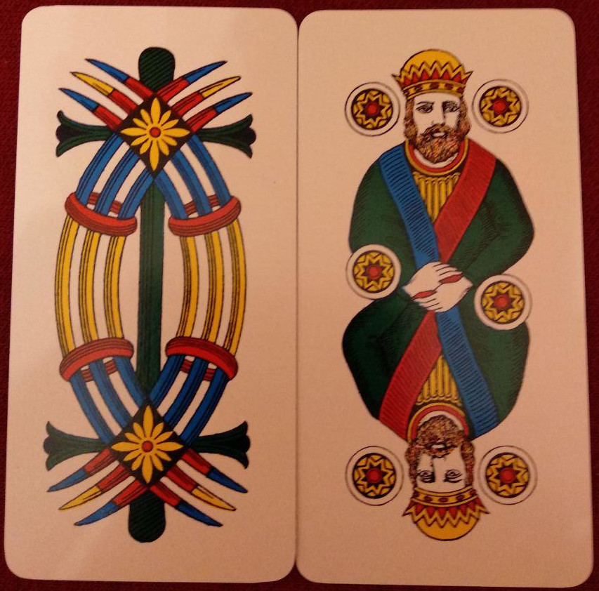 A Sette e Mezzo reale featuring cards from a Bolognese deck (7 of swords, King of coins).